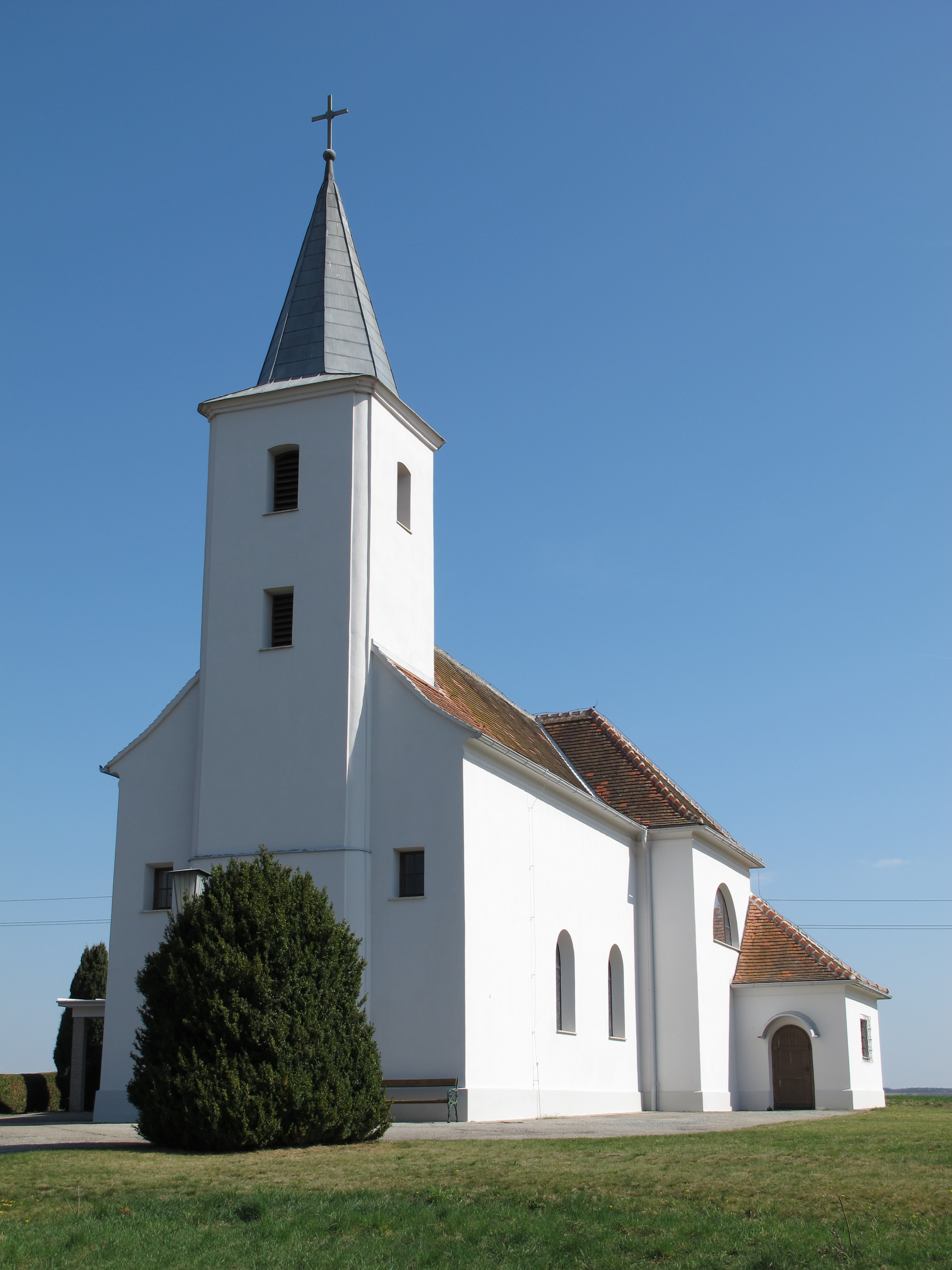 Kirche Eisenberg an der Pinka